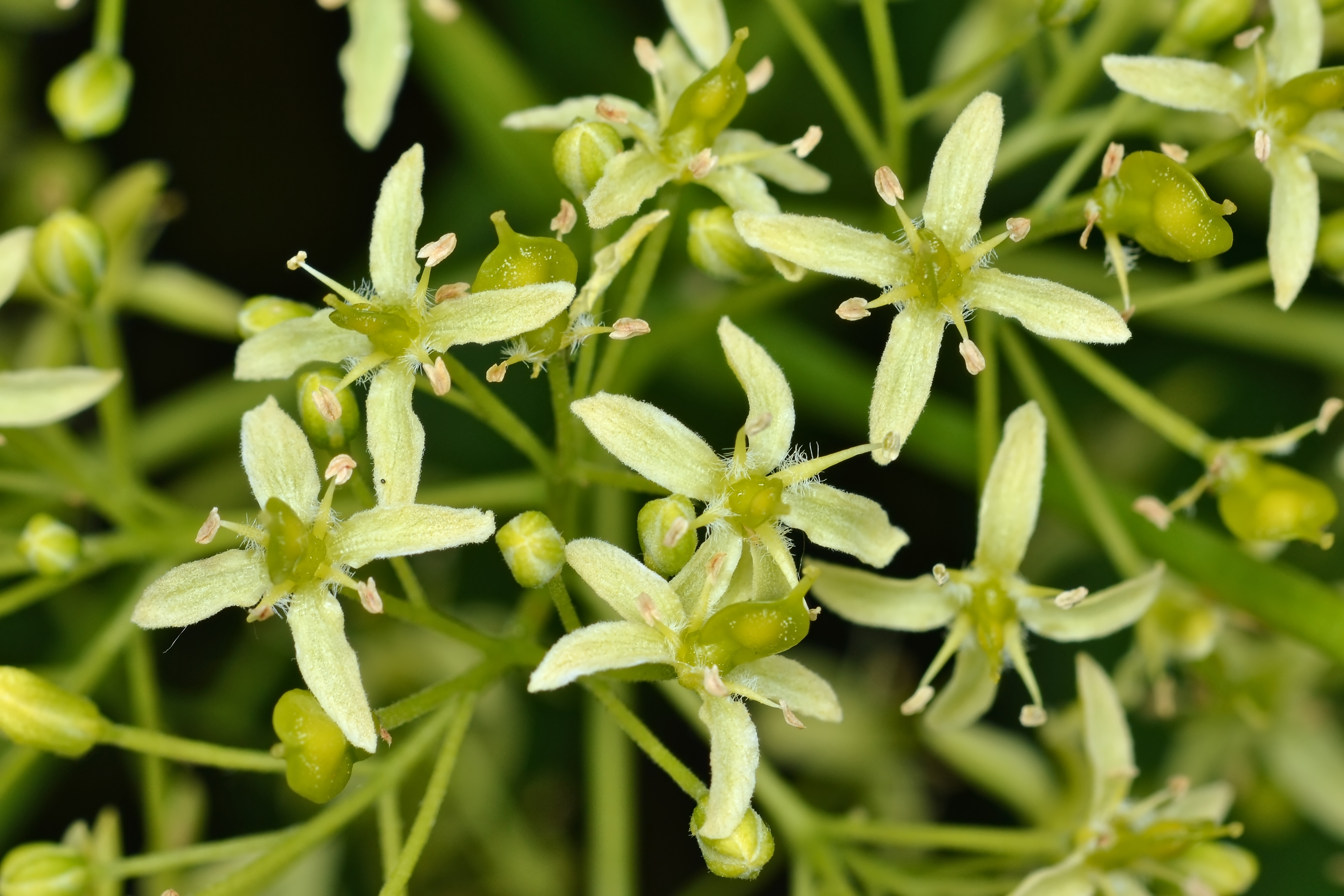 Common Hoptree (Ptelea trifoliata) in Guelph, Ontario, Canada.